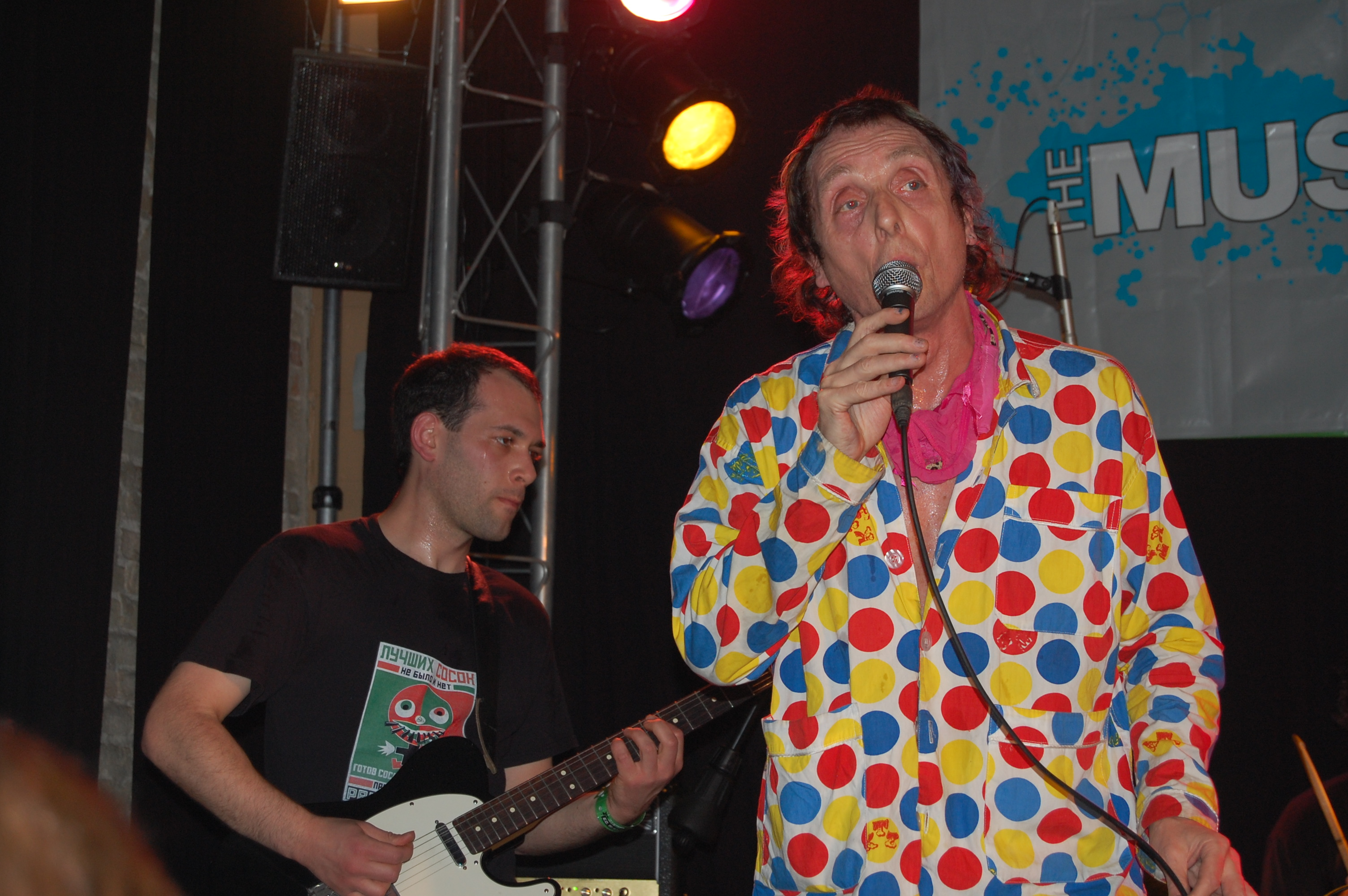 The Homosexuals at Rusty Spurs (SXSW)